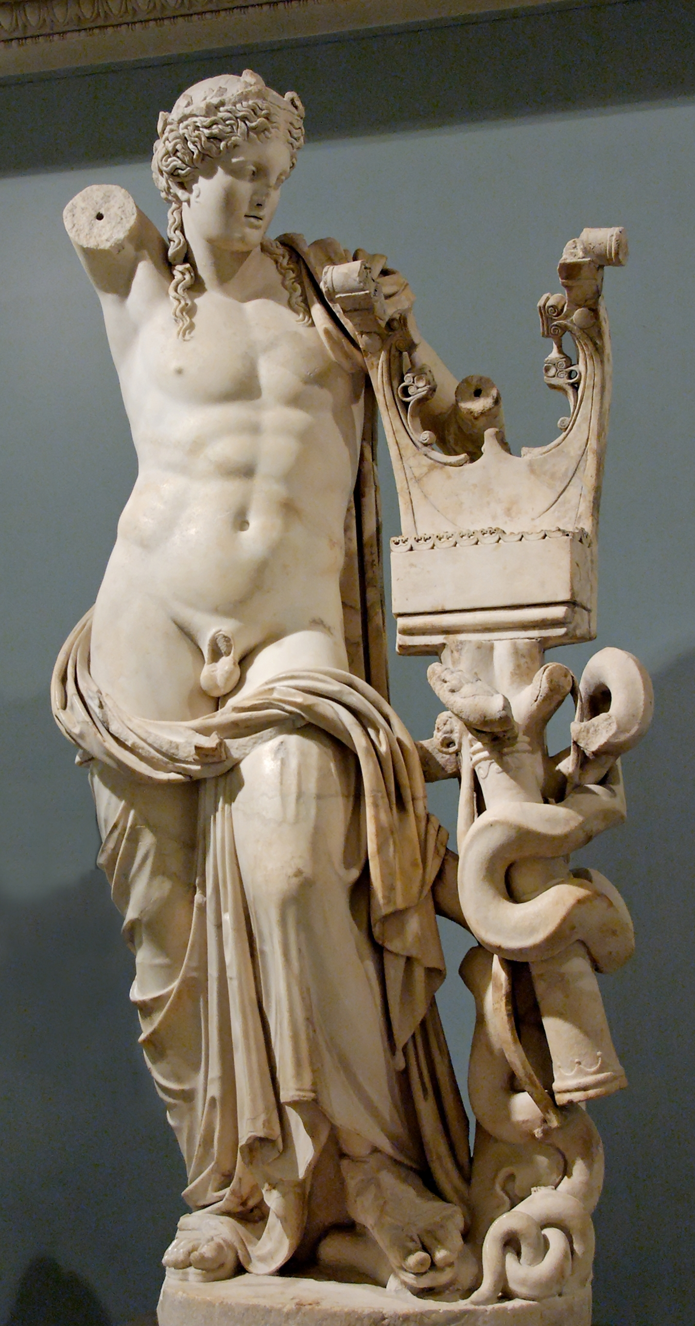 Apollo kitharoidos (holding a lyre). Marble, Roman artwork, 2nd century CE, influence of Hellenistic statuary of the 2nd century BC. From the Temple of Apollo at Cyrene (modern Libya).